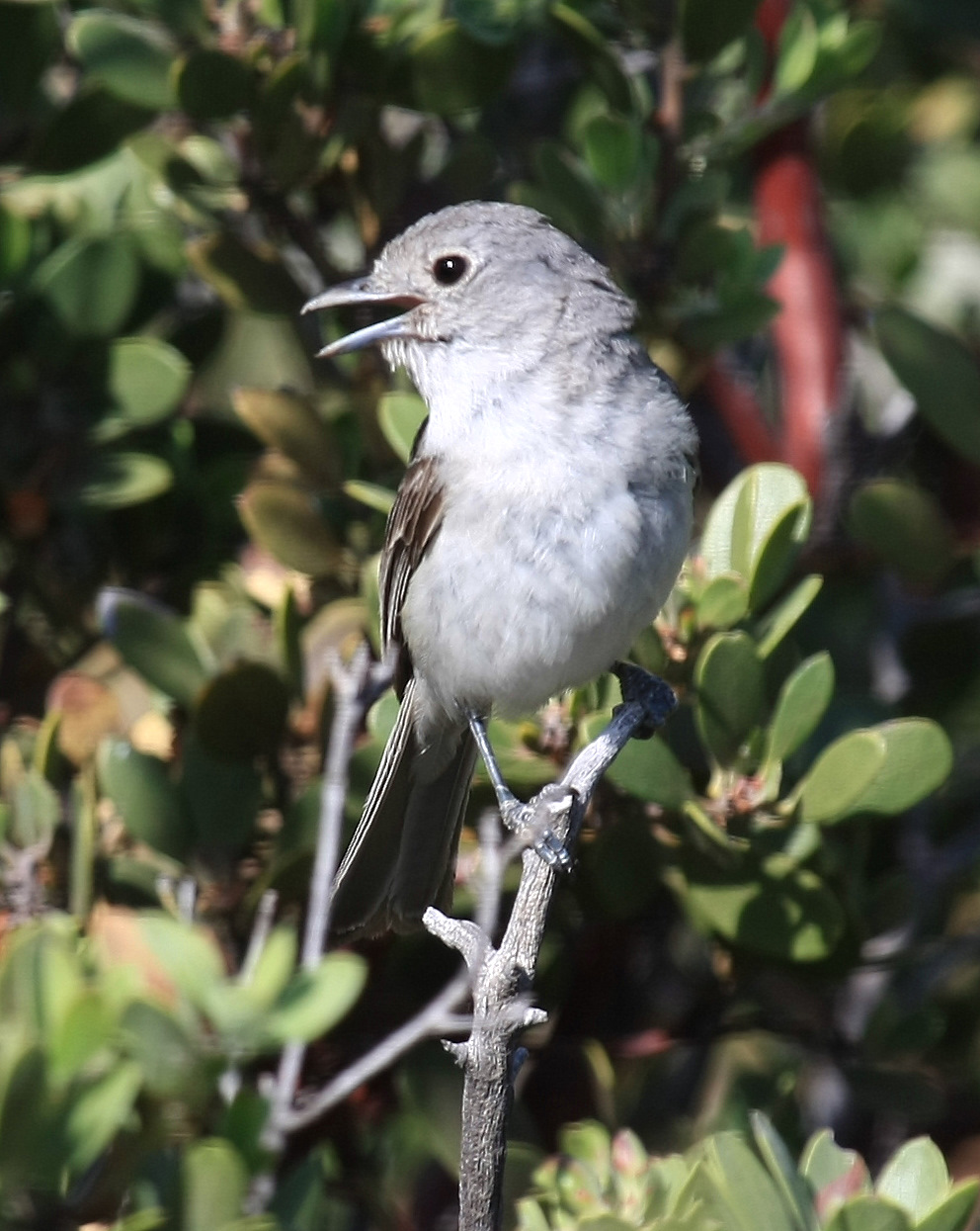 Vireo vicinior, Arizona